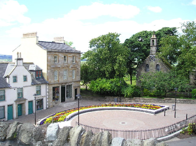 Beith Auld Kirk and The Cross. Buildings recently renovated under the Beith Townscape Heritage Initiative.Information on the Auld Kirk at